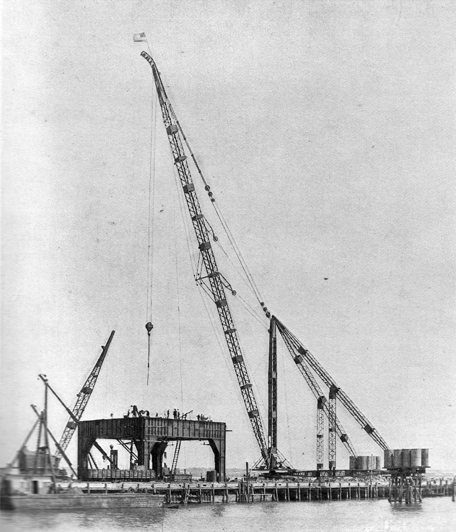 A Fine Example of a Derrick Crane It is assiting at the construction of a large travelling crane. presumed US photograph - Stars and Stripes visible at cranehead